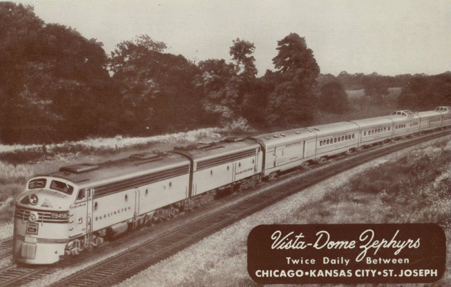 Postcard photo of the Kansas City Zephyr/American Royal Zephyr. Kansas City Zephyr traveled between Chicago and Kansas City-American Royal Zephyr also served St. Joseph, Mo.